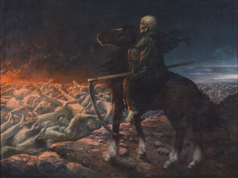 The Reaper, painting by Stevan Aleksić (1876-1923). It can be seen in the Matica Srpska Gallery in Novi Sad.